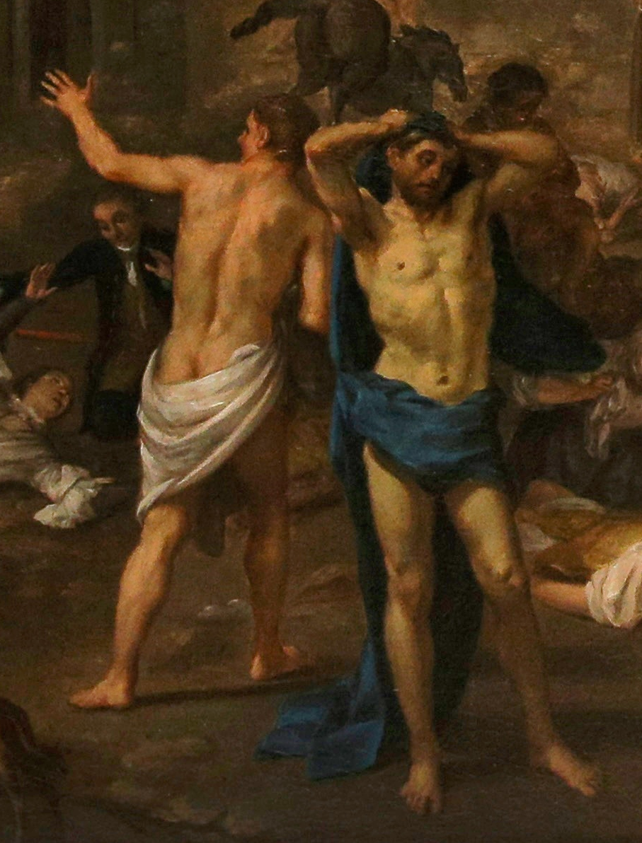 The Earthquake of 1755, painted from 1756 to 1792 by João Glama Ströberle (1708-1792). Currently in the National Museum of Ancient Art, Lisbon, Portugal.